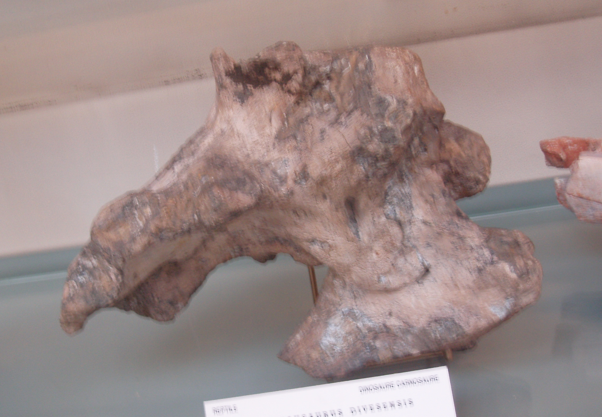 Braincase of Piveteausaurus divesensis